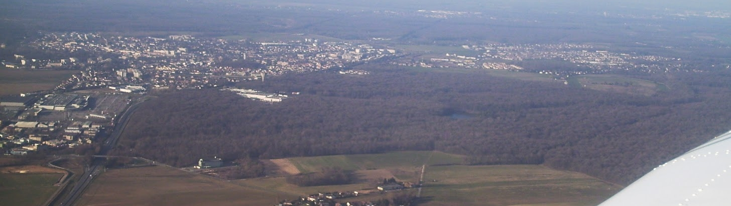 Aerial view of Rambouillet city.